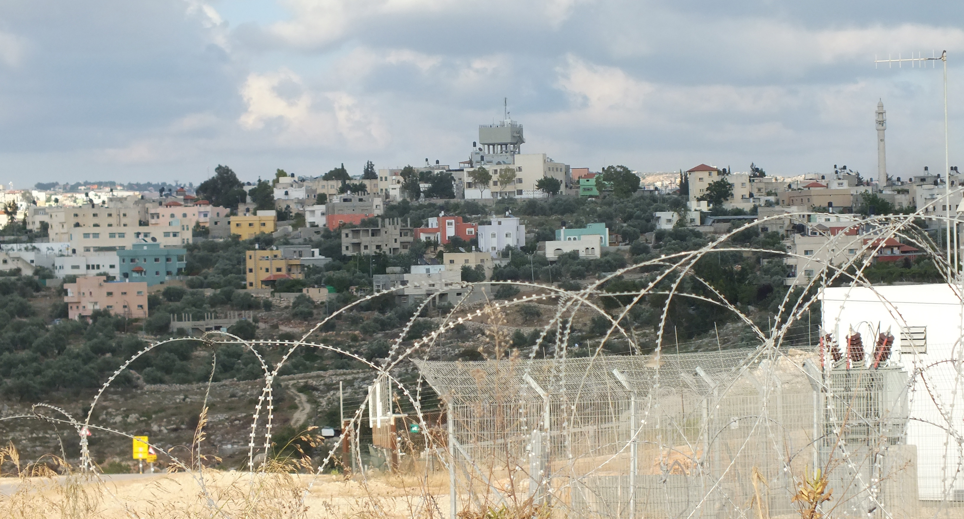 Frontier fence of Elkana, with the village of Mas'ha (Mass–ḥa) painting the ridge across the wadi.